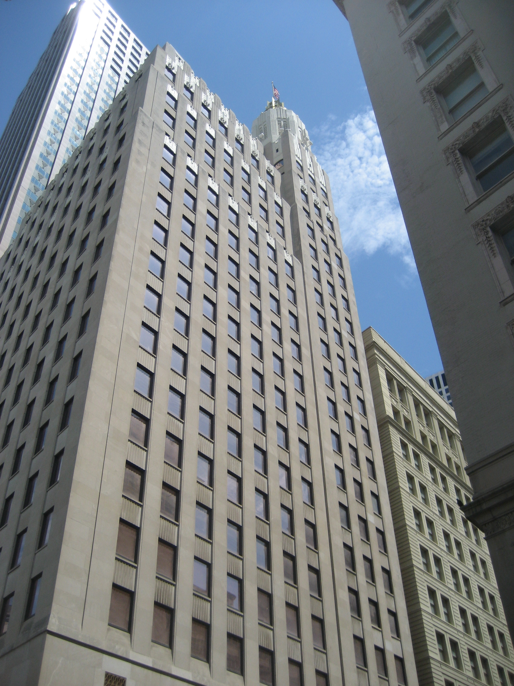 Carondelet Street, New Orleans: 200 Carondelet Street building, former American Bank Building